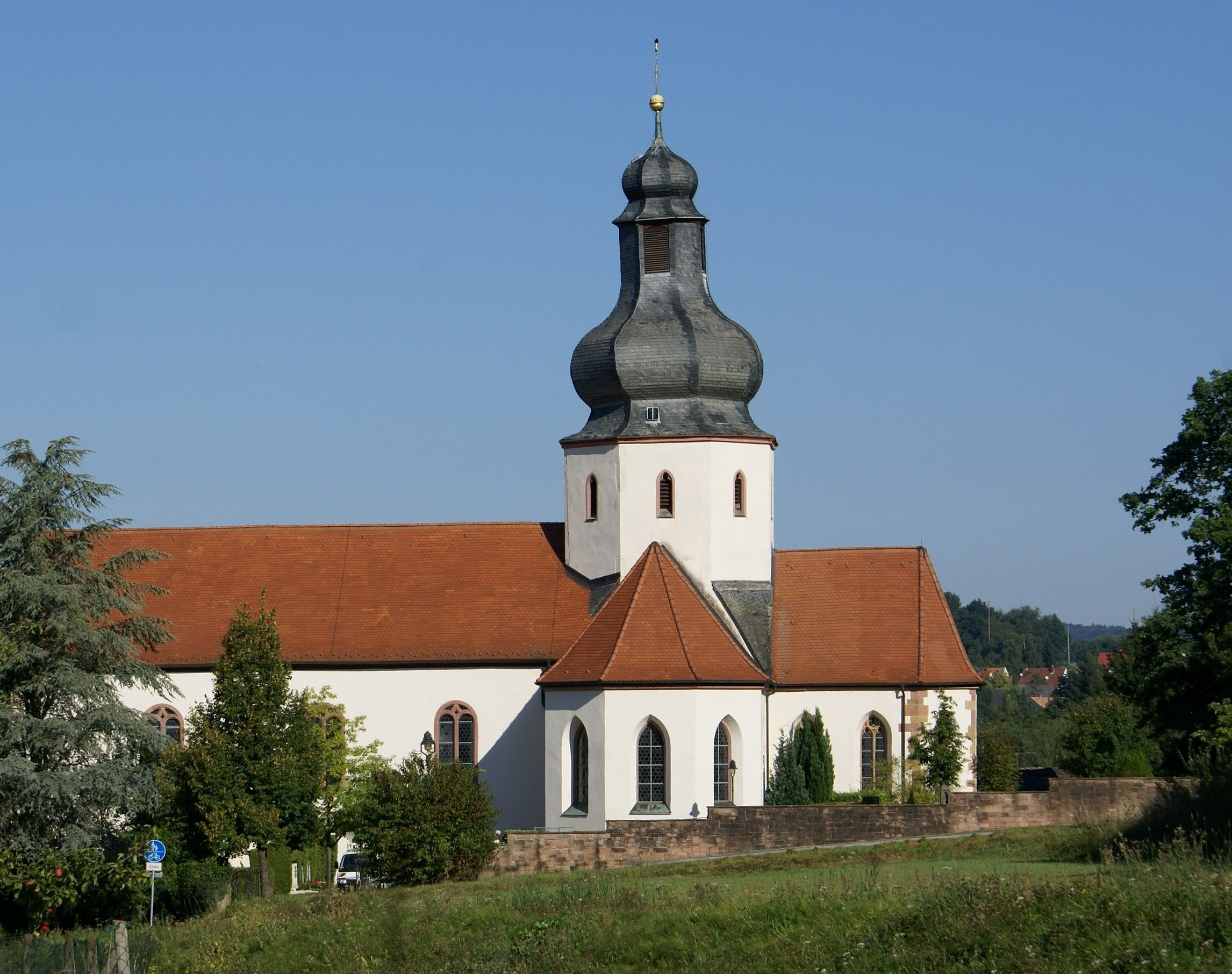 St. Katharina in Ernstkirchen in the bright morning sun. View from the road to the village Sommerkahl